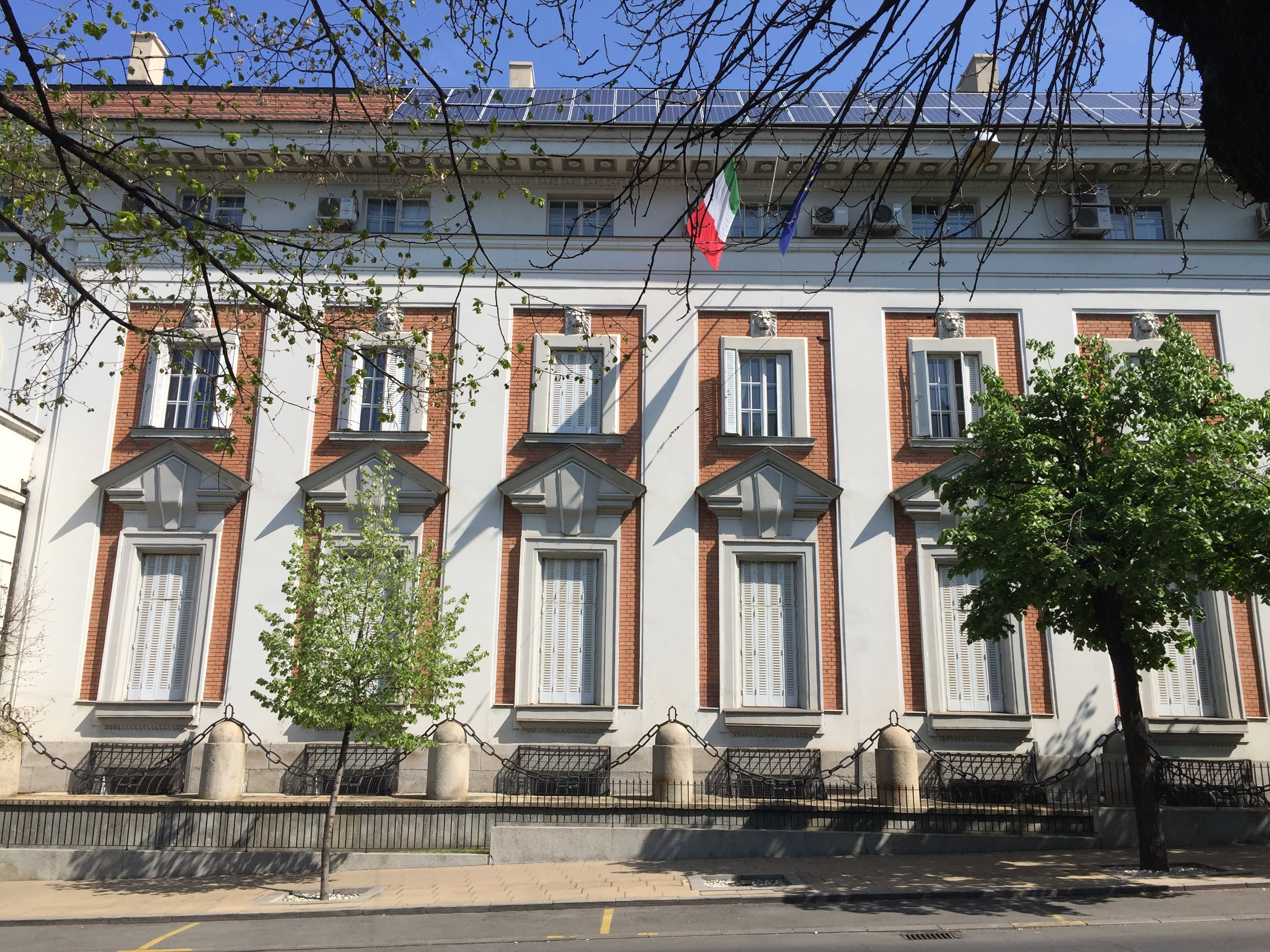 Embassy of Italy in Belgrade.